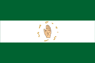 Flag used in Algeria during the State of Emir Abd el-Kader